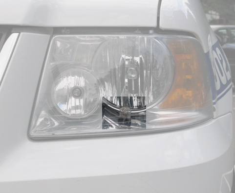 A hide-away strobe light fitted into the driver's side headlamp of an American police vehicle. Hideaway strobe (center, in the highlighted portion of the picture) in the driver's side headlamp of a Ford SUV used as a police car in Dobbs Ferry, New York, United States of America. The strobe light is the coiled glass tube seen in the bottom of the headlamp.